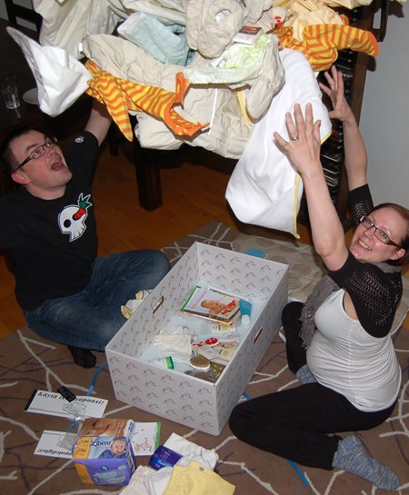 A Finnish couple rejoicing their maternity package.